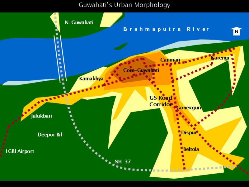 Guwahati city (india): Urban morphology